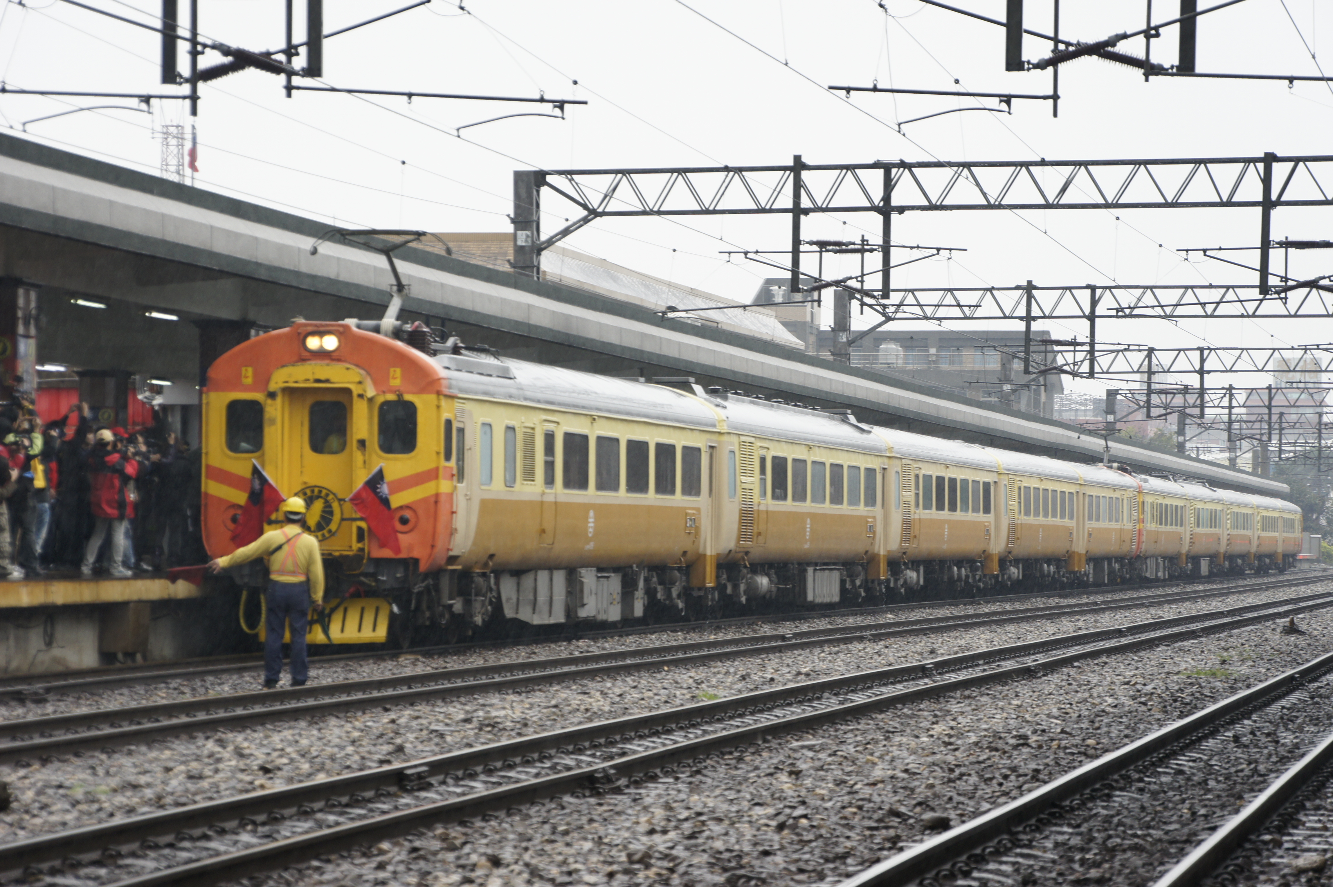 British Lady at Hualien, No.7776 Cruise type Train